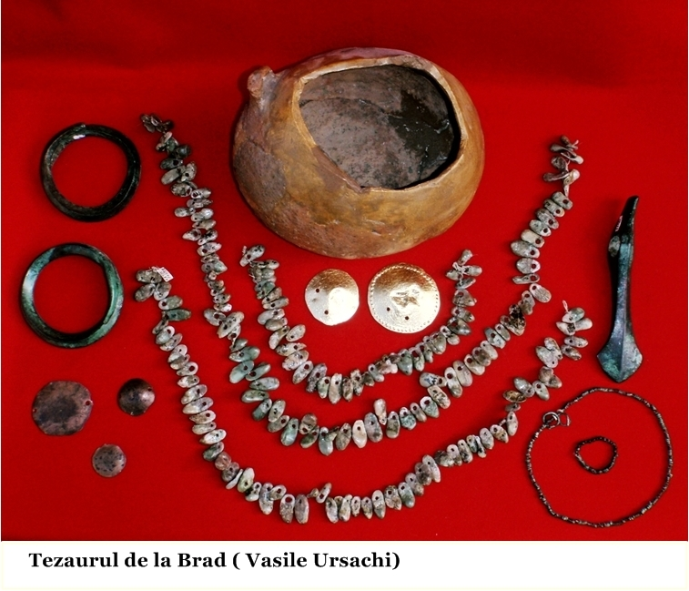 Tezaurul de la Brad